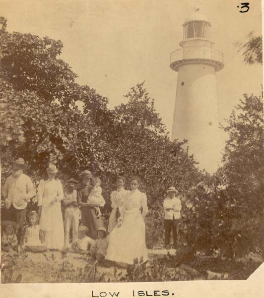 A group of people with the Low Isles Light in the background